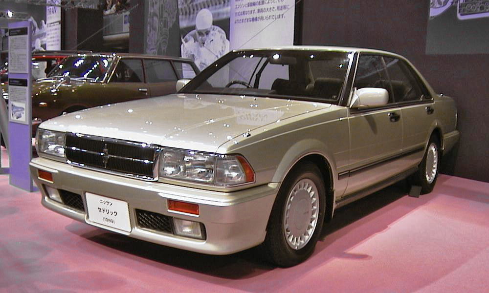 8th Nissan Cedric taken in The 35th Tokyo Motor Show